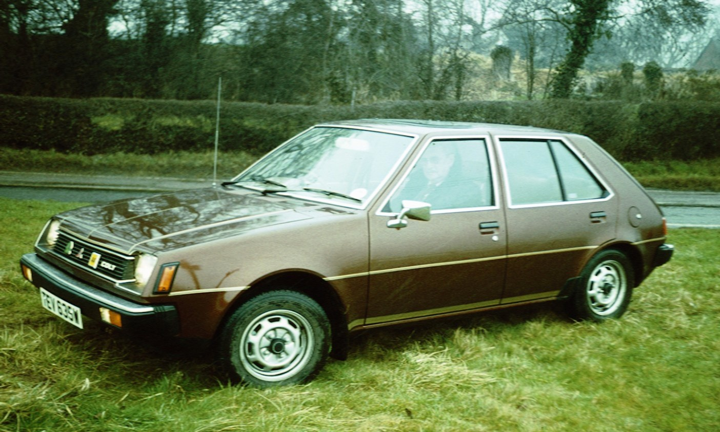 Mitsubishi Colt 5 door hatchback 1980 in England